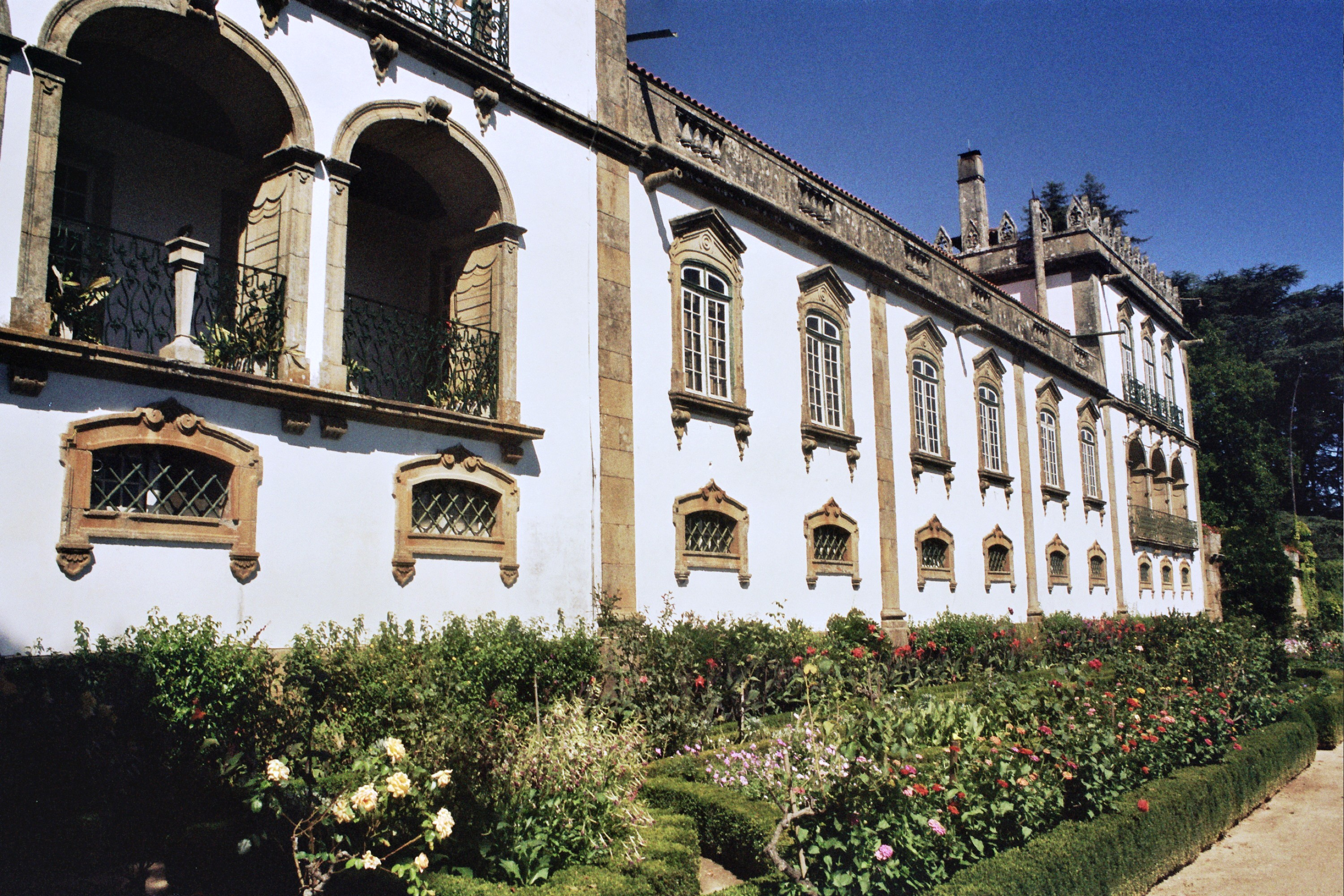 Ínsua, Penalva do Castelo